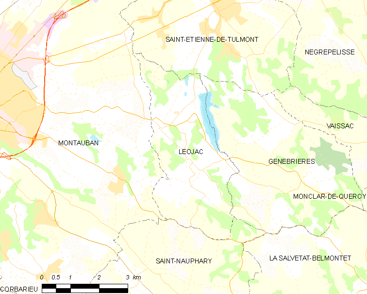 Map of French municipality Léojac